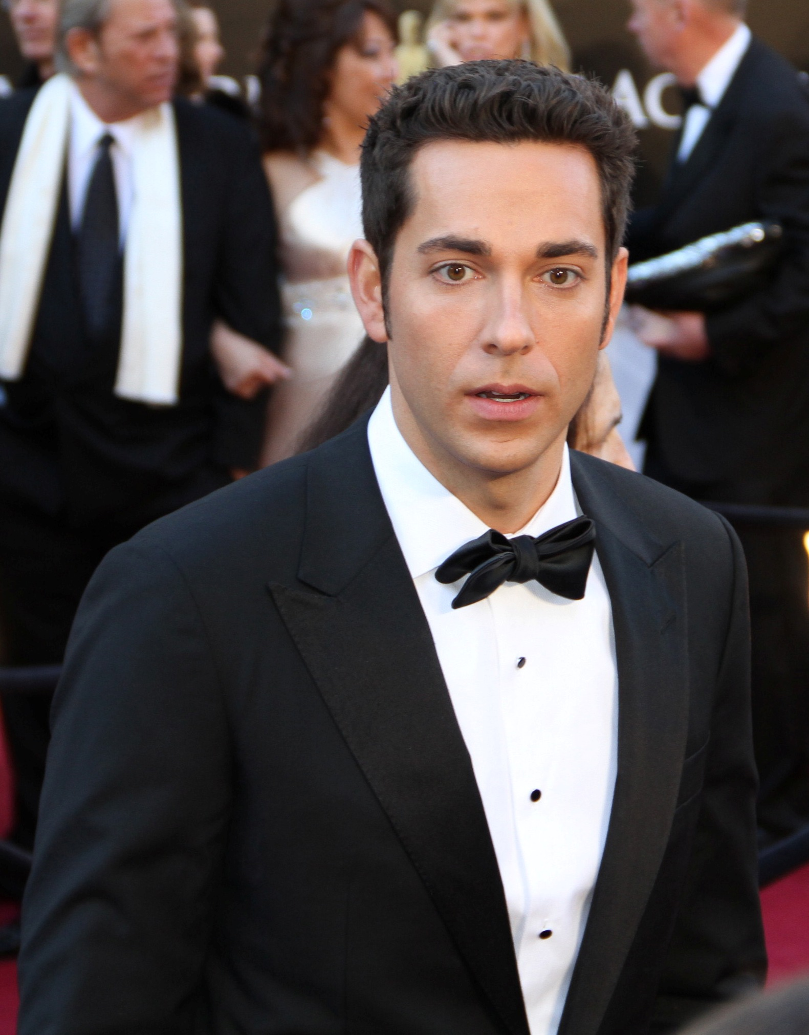 Zachary Levi at the 83rd Academy Awards